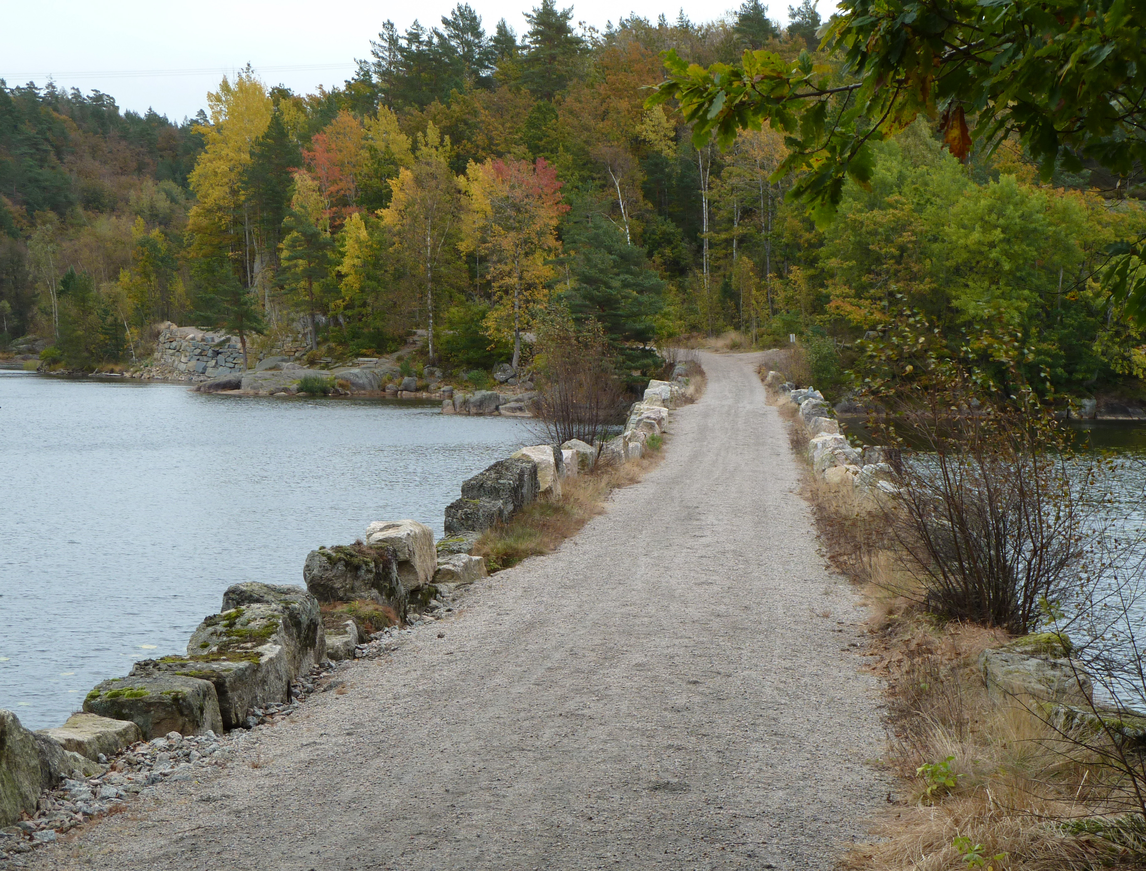 Stretch of the old highway, Postveien, between Mandal and Kristiansand in Songdalen municipality, Vest-Agder, Norway. Built in the 1790's.